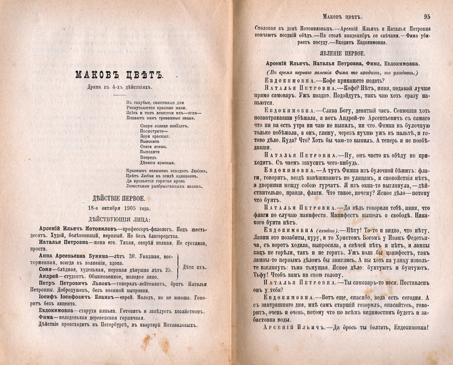 «The flower of poppy», drama by Zinaida Gippius, Dmitry Merezhkovsky, Dmitry Filosofov.